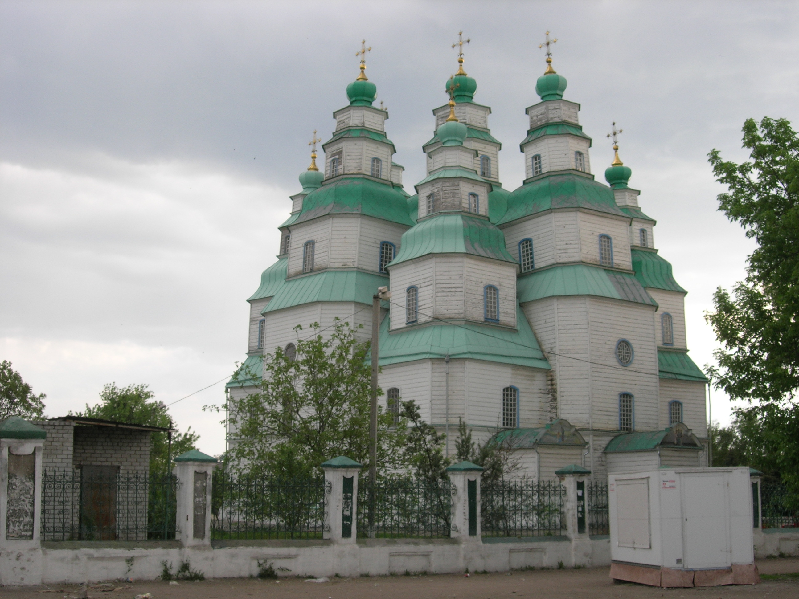 Old church (c.XVIII) in Novomoskovs'k, Ukraine